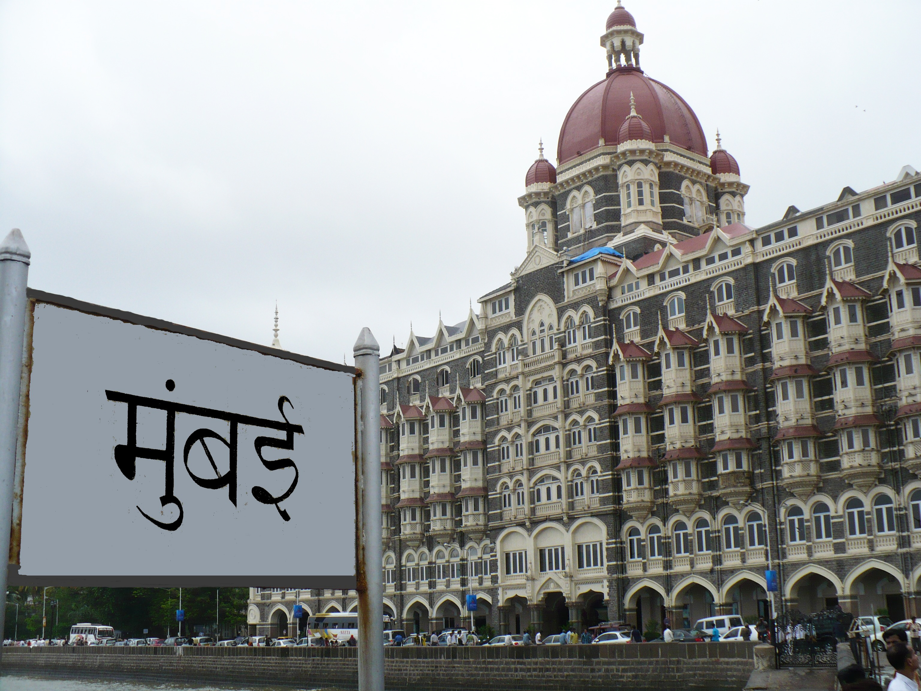 This photo was taken by Nikhil Kulkarni